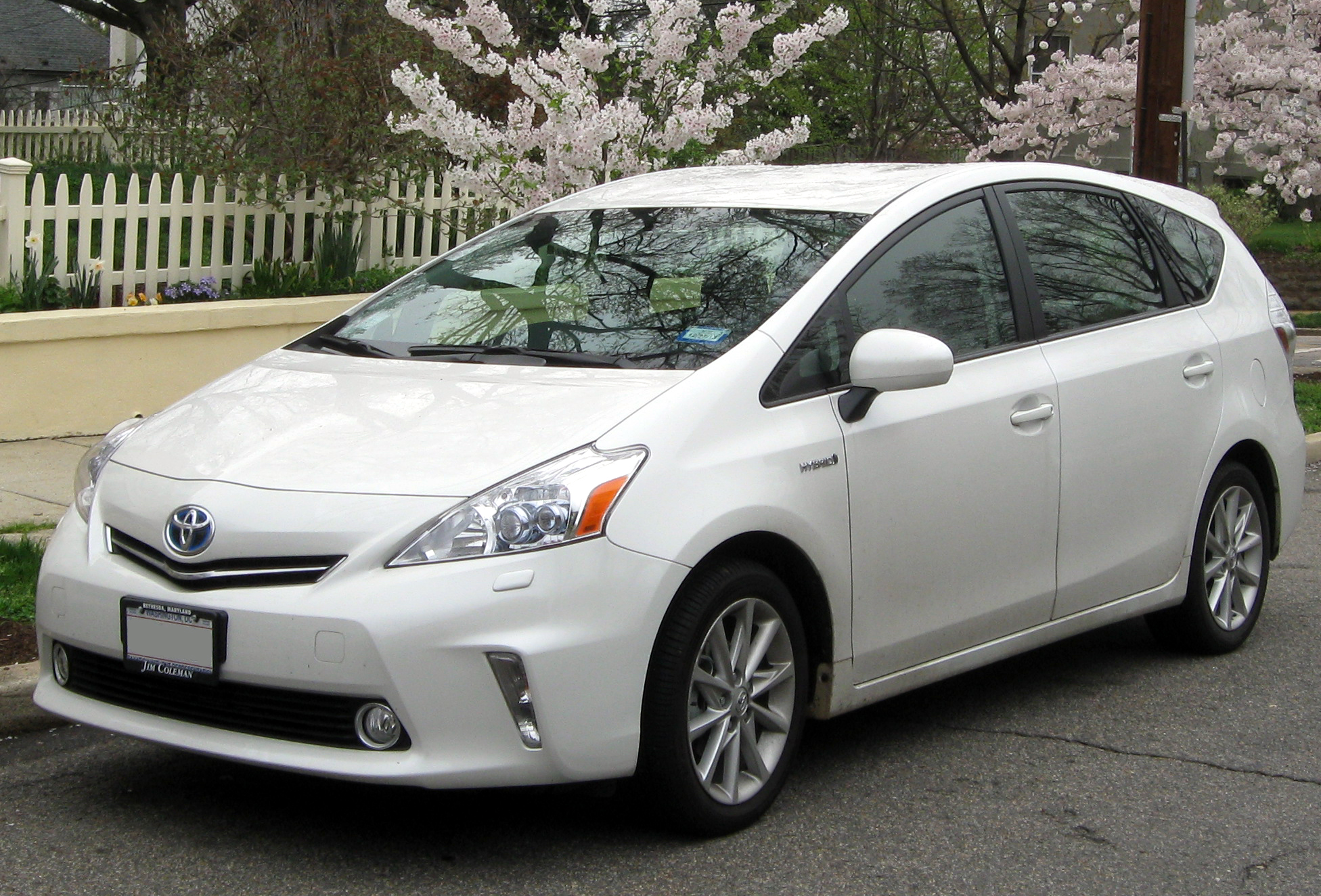 2012 Toyota Prius v photographed in Washington, D.C., USA.